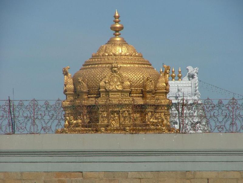 Another view of ananda nilayam - the gold covered gopuram of the tirumala venkateswara temple